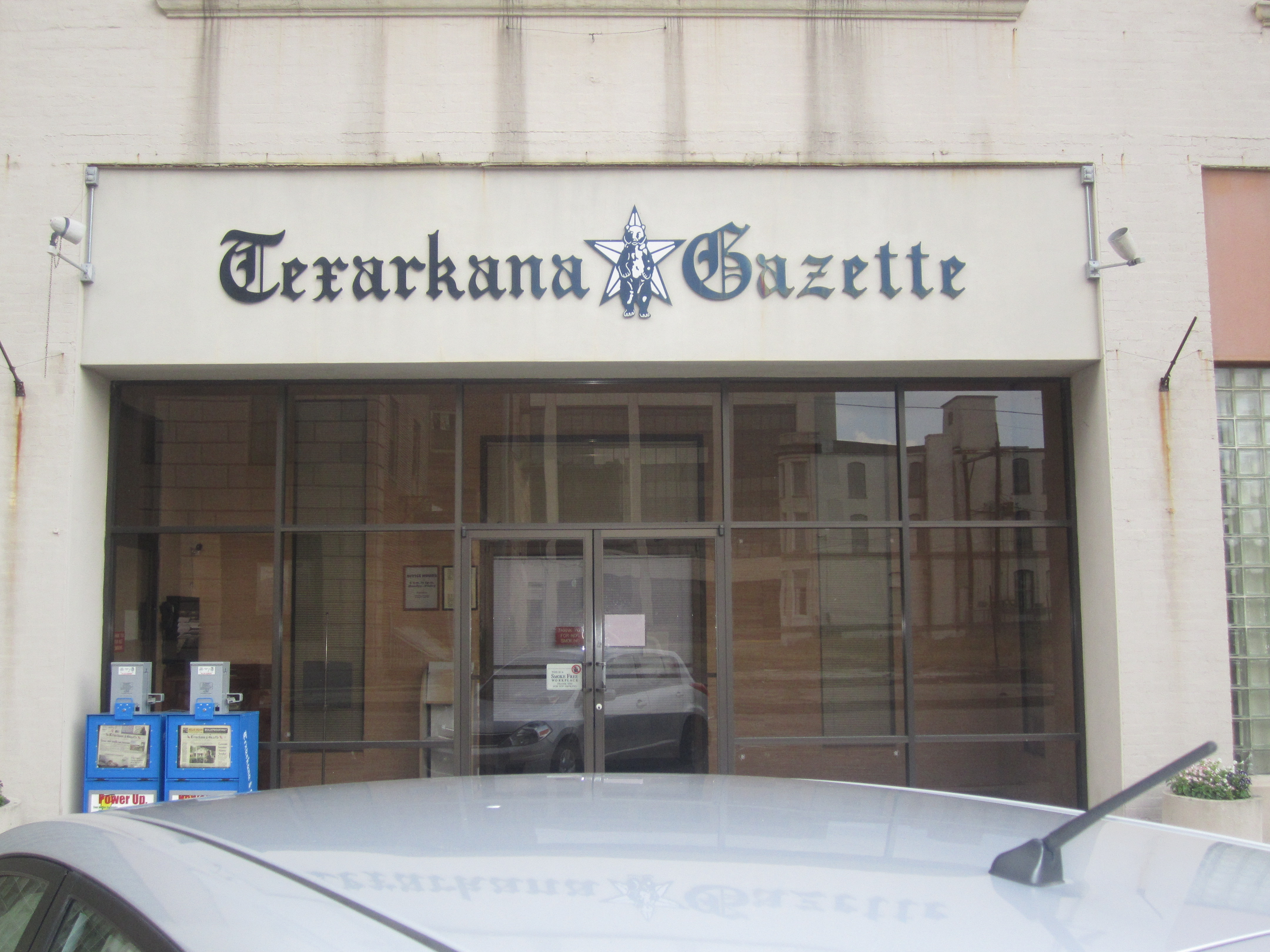 I took photo of Texarkana Gazette building in Texarkana, TX, on June 9, 2012, with Canon camera.Billy Hathorn (talk) 03:18, 28 June 2012 (UTC)